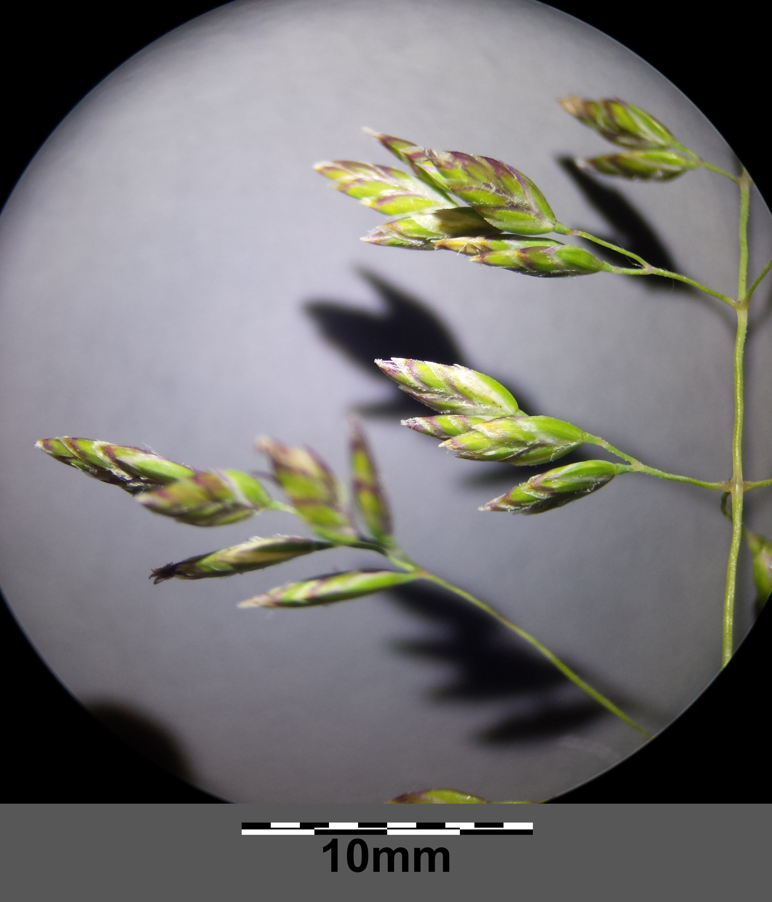 Panicle Taxonym: Poa pratensis ss Fischer et al. EfÖLS 2008 ISBN 978-3-85474-187-9 Location: next to Schmetterlingswiese in Donaupark, Vienna-Donaustadt - ca. 160 m a.s.l. Habitat: ruderal, dry meadows